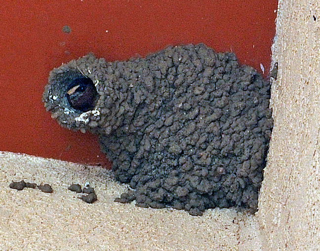 Cliff Swallow nest in New Mexico.